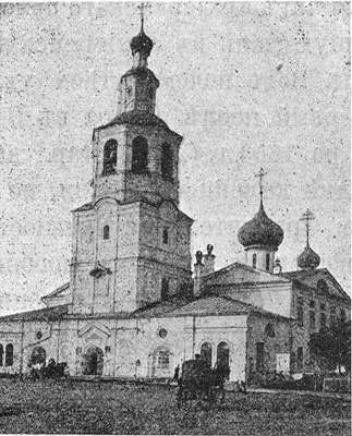 Spasovsegradsky Temple, Vologda, Russia. Destroyed 1972.